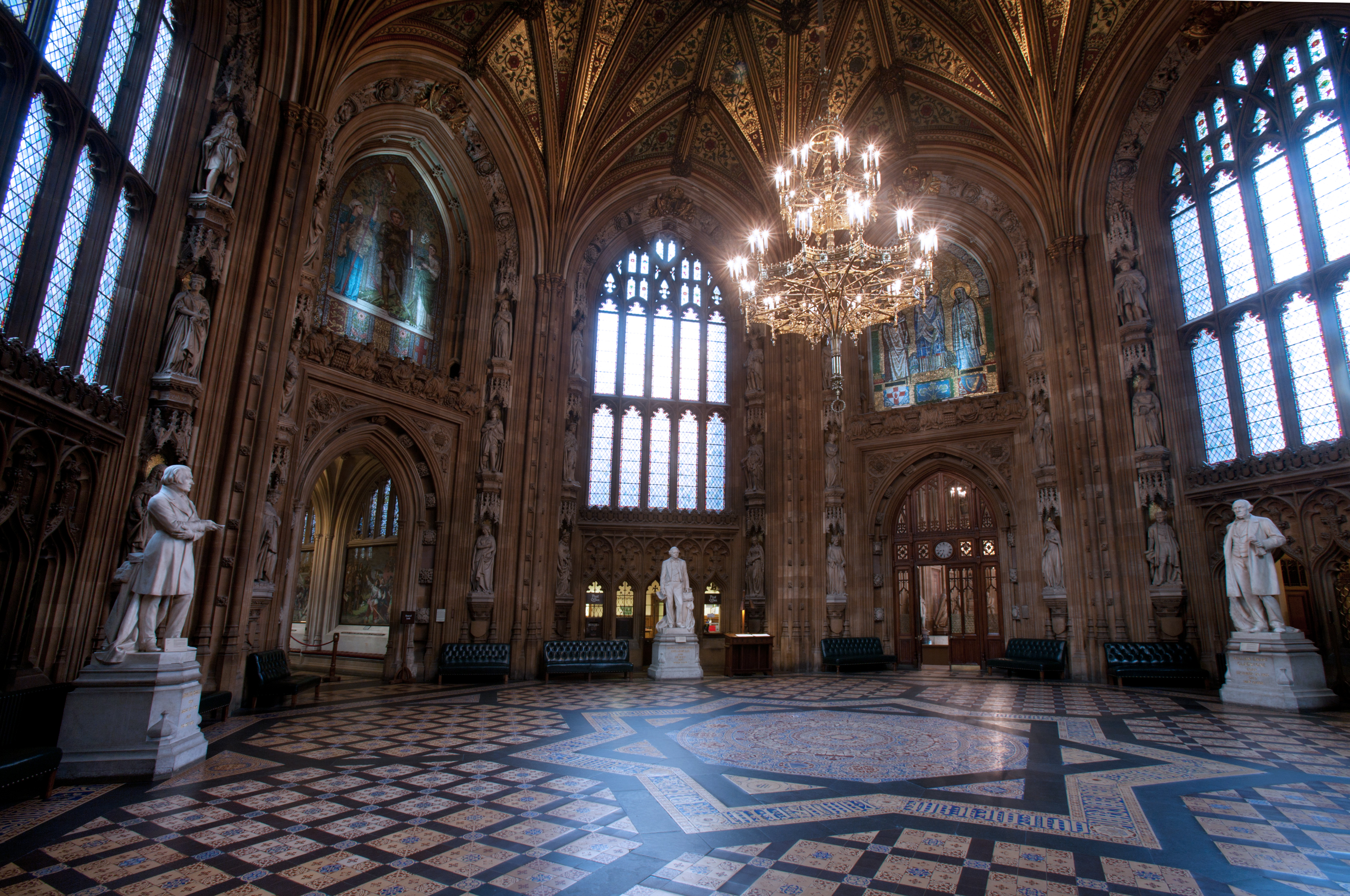 House of Lords & House of Commons Lobby. The Parliament. London. UK